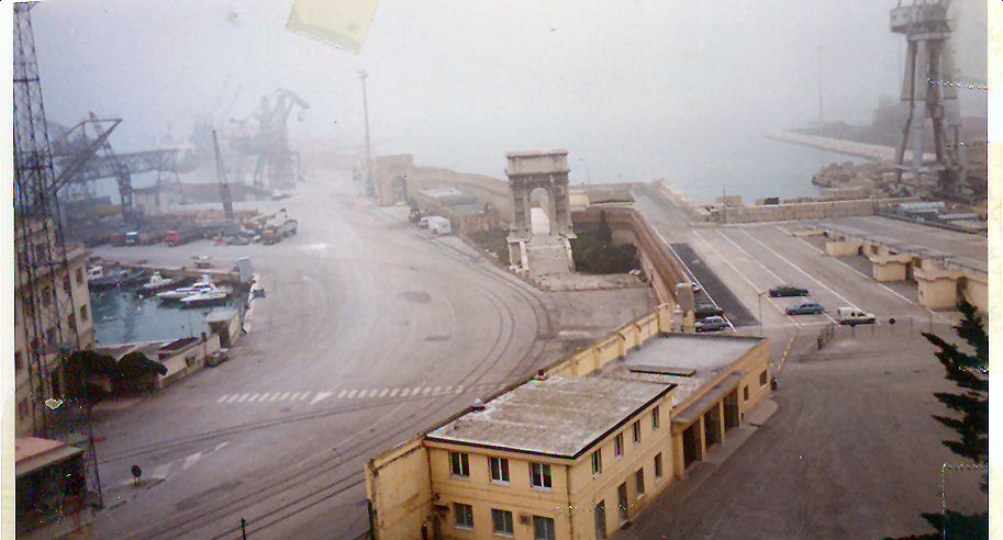 Ancona_-_Arco_di_Traiano_-_a_porto